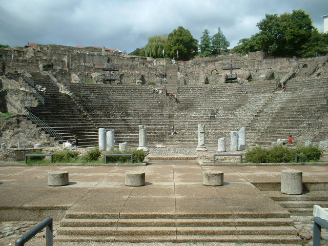 Lyon, Theatre Romain of Fourviere